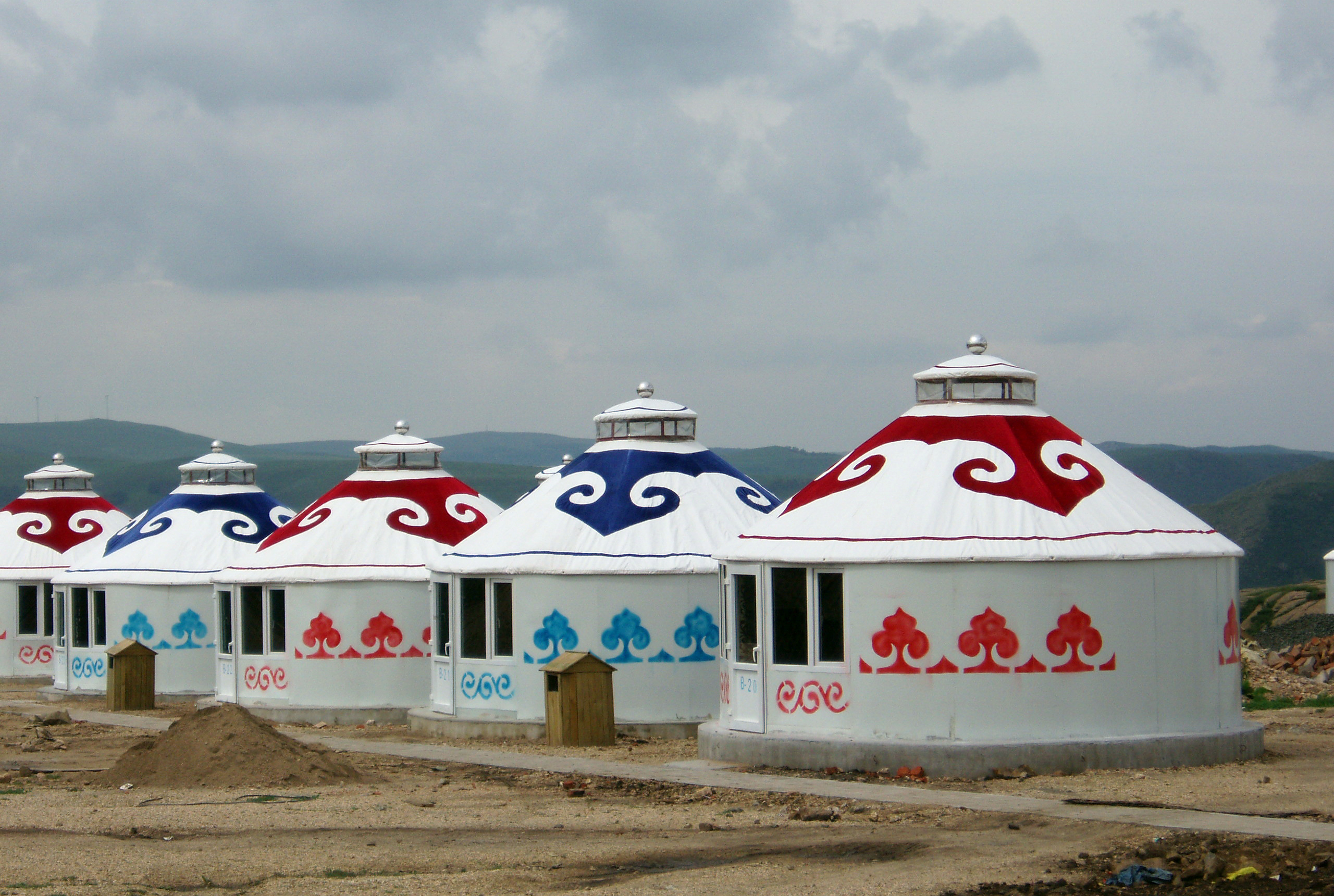 Yurt-themed tourist camp(?) under construction (?) in Inner Mongolia, China. Note that traditional yurts do not have windows, have felt walls plus a (somewhat optional) canvas cover held together by ropes, and a removable rooftop to let the smoke from the stove escape